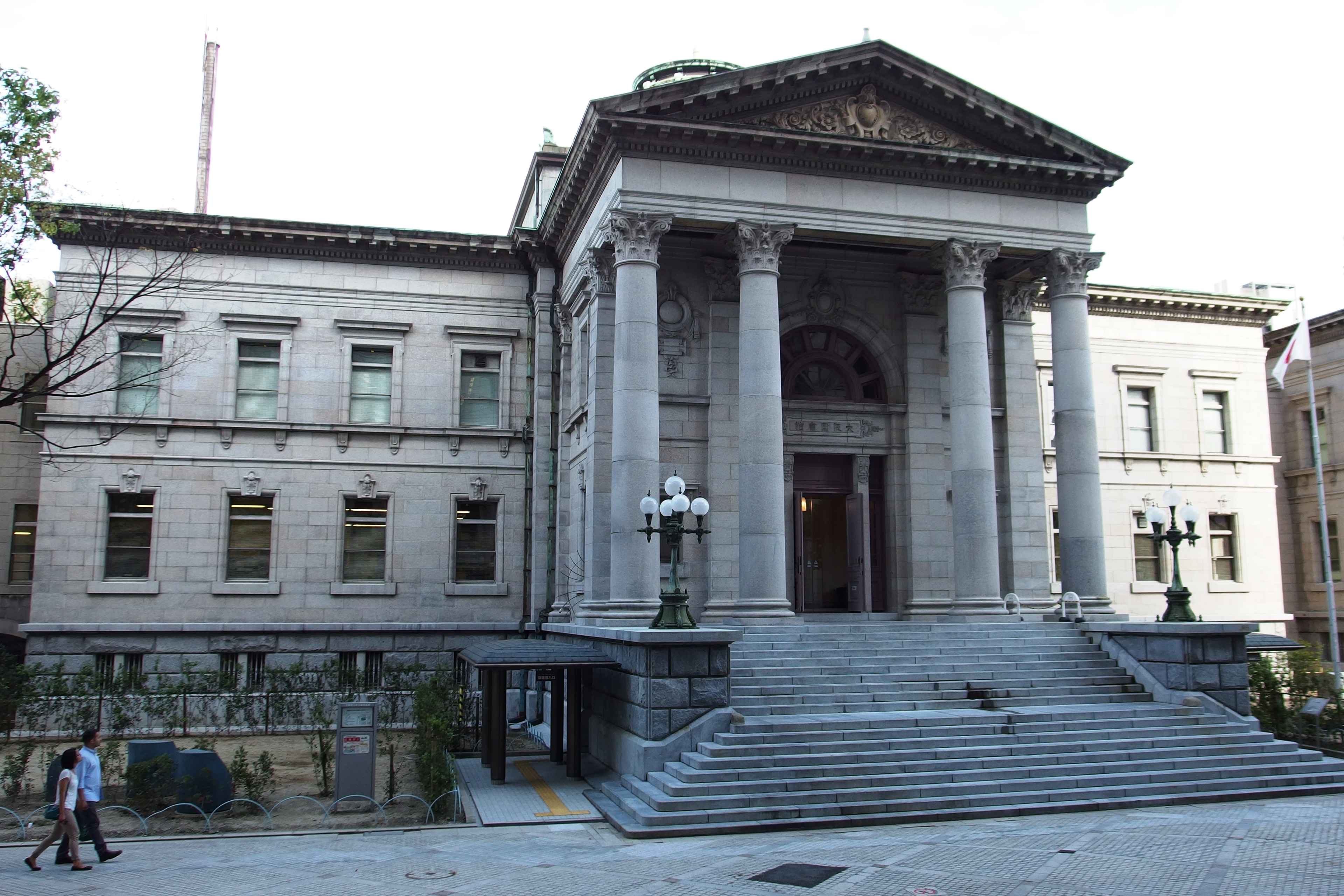 Osaka Prefectural Nakanoshima Library in Osaka, Osaka Prefecture, Japan